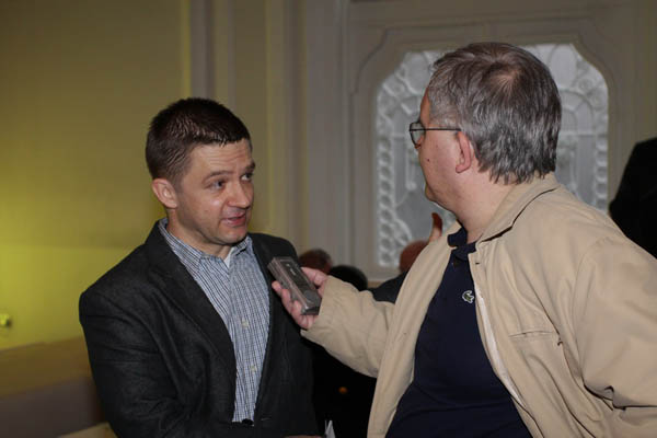 Tvrtko Jakovina giving an interview on Subversive Festival